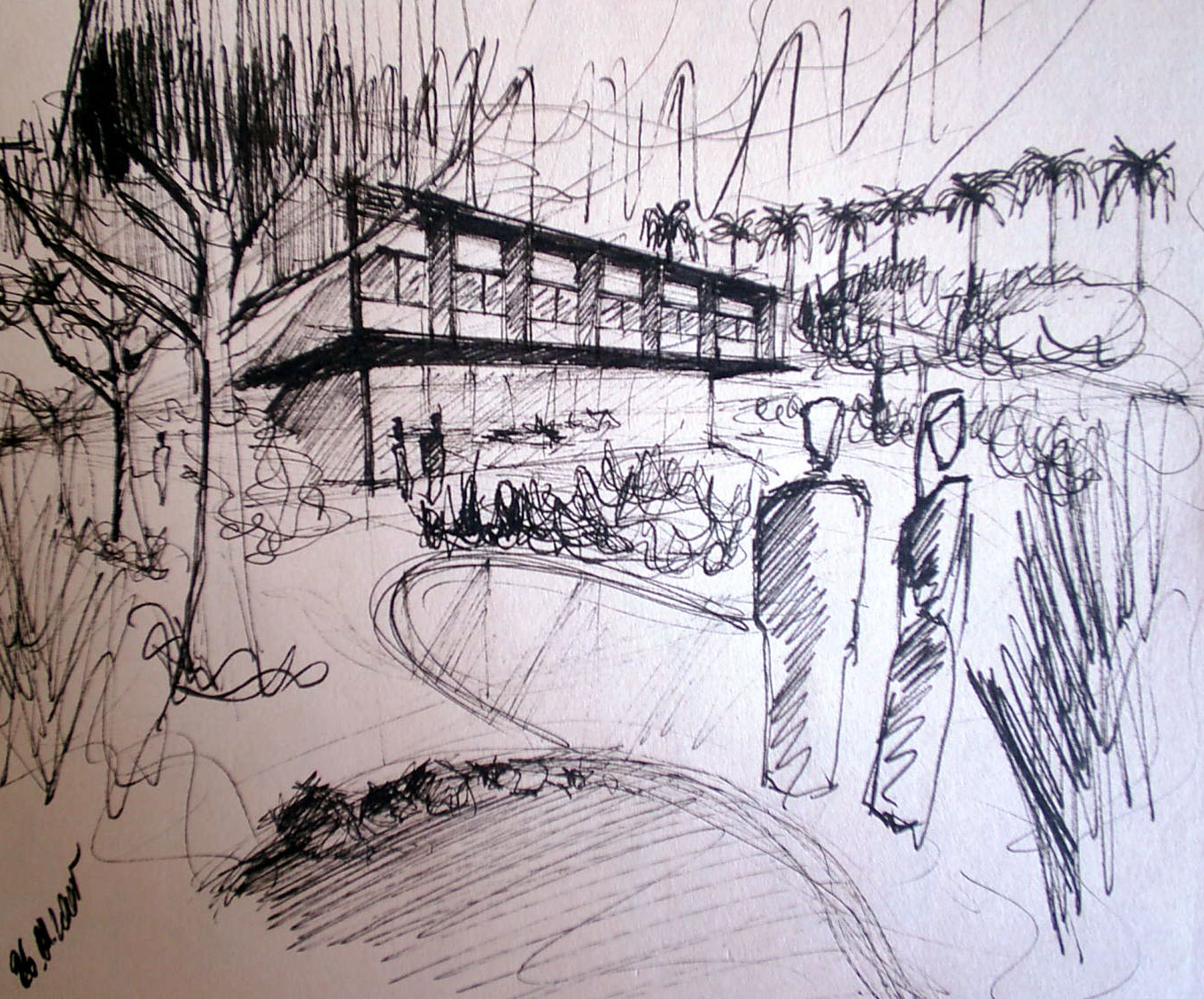 Sample of a hand-made sketch intented for illustrating articles about drawing, sketches and alike (or wikibooks about drawing learning, perspective, etc). Picture made by me (User:Gaf.arq). Another version can be found here: .